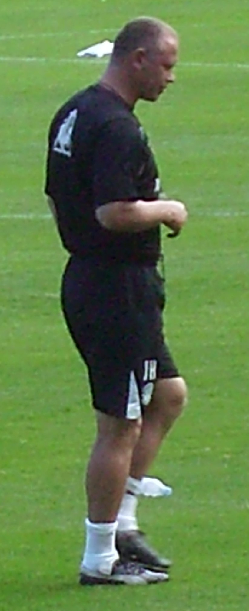 Hibernian F.C. manager John Hughes at a club open day held at Easter Road on 2 August 2009.